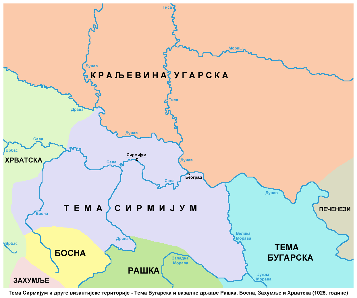 Theme of Sirmium and other Byzantine territories - Theme of Bulgaria and vassal states of Rascia, Bosnia, Zahumlje and Croatia (in 1025).